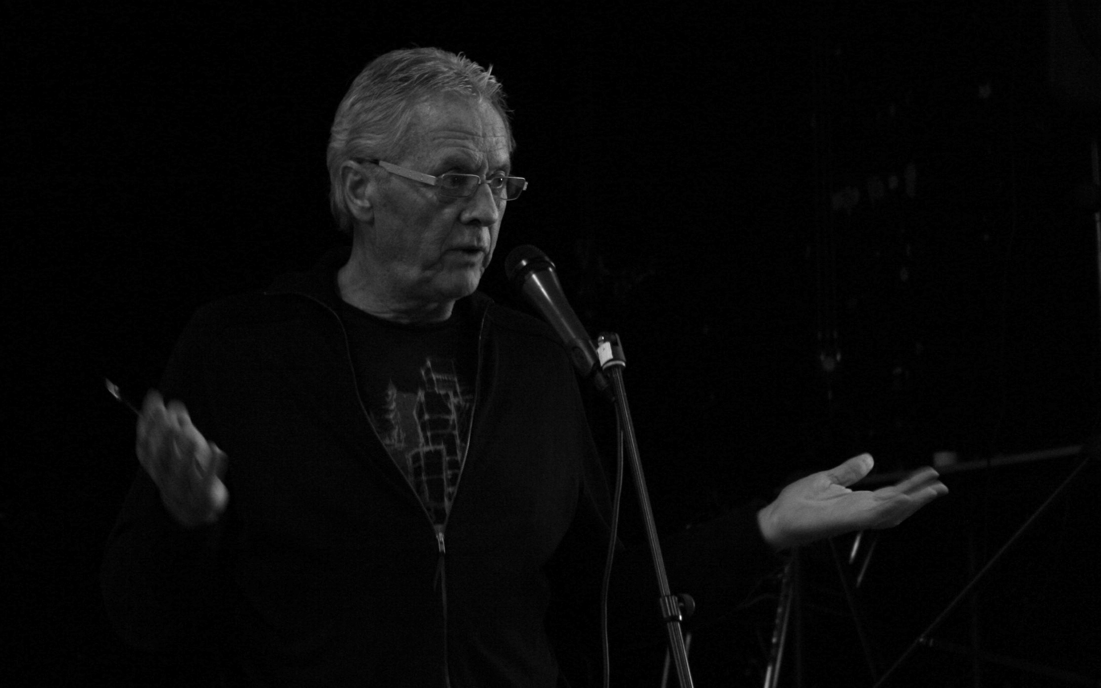 Norwegian peace worker Petter Skauen talking to Changemaker at the organizations summer camp in Tromsø, Norway in 2008.